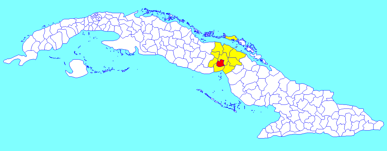 A map of the municipality of Ciego de Ávila (shown in red) within the Province of Ciego de Ávila (yellow) and Cuba.